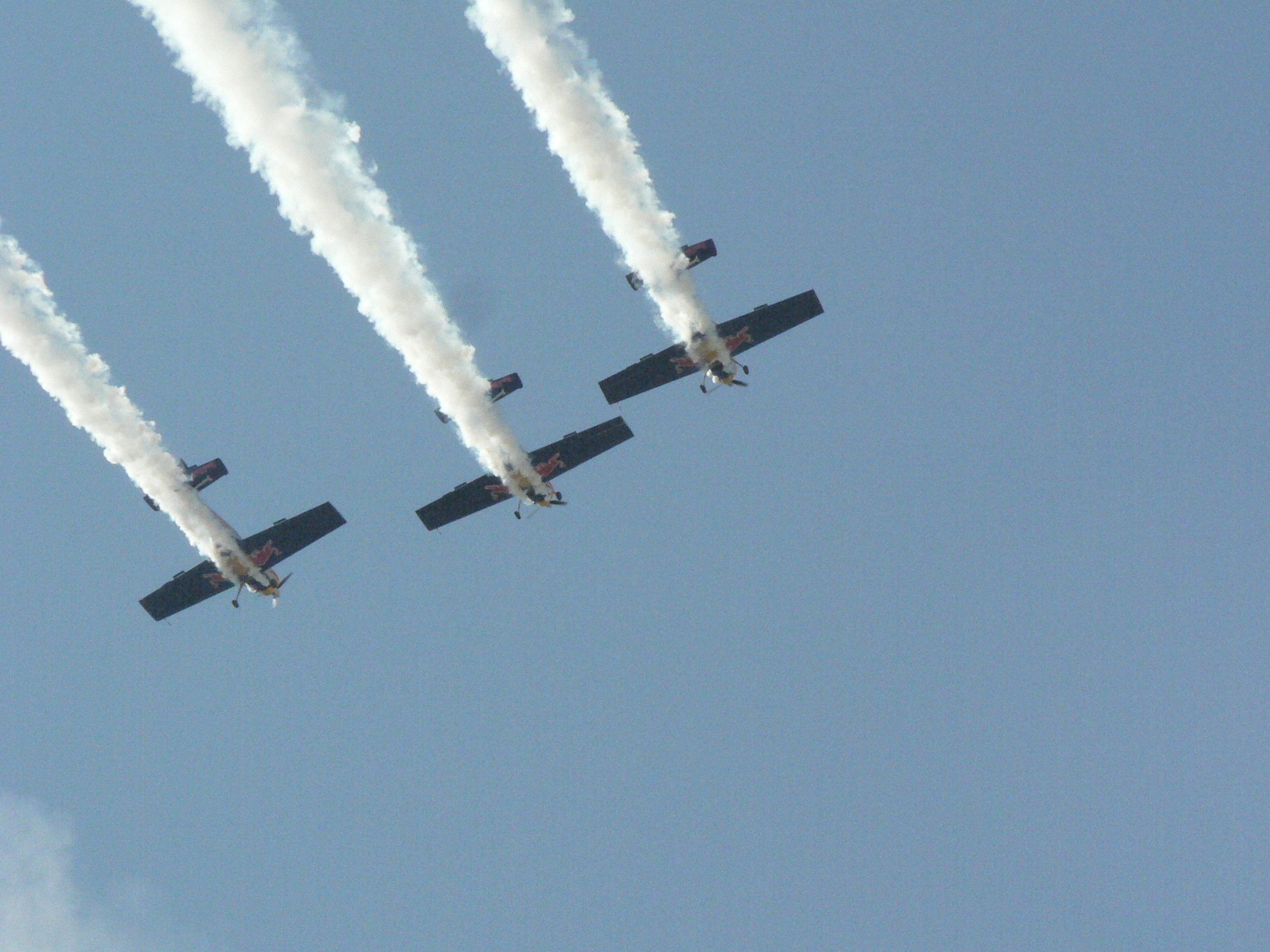 Live on the 20th of August, 2006. Budapest, the Danube embarkemant. Red Bull Air Race 2006. In 2001 Red Bull asked Besenyi Péter, hungarian aviator to work on the concept of an air race